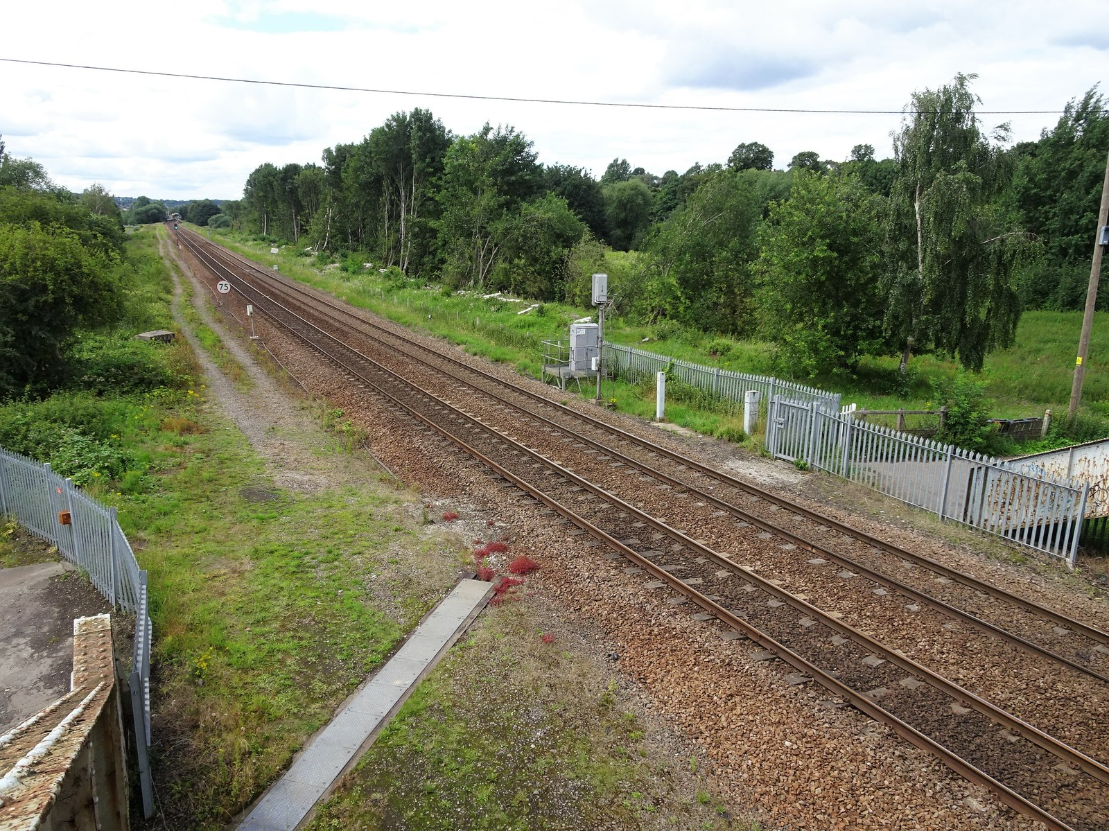 Mexborough Ferry Boat railway station (site), YorkshireOpened in 1850 by the South Yorkshire Railway, later part of the Manchester Sheffield & Lincolnshire Railway on the line from Doncaster to Barnsley, this station probably closed in 1872 when it was replaced by the current Mexborough station. View west towards Mexborough and (formerly) Barnsley. The 1854 OS map simply labelled it as "Mexborough station" but only accessibly by ferry and footpath. Other sources labelled it as "Ferry Boat Halt". No trace apparently remains.